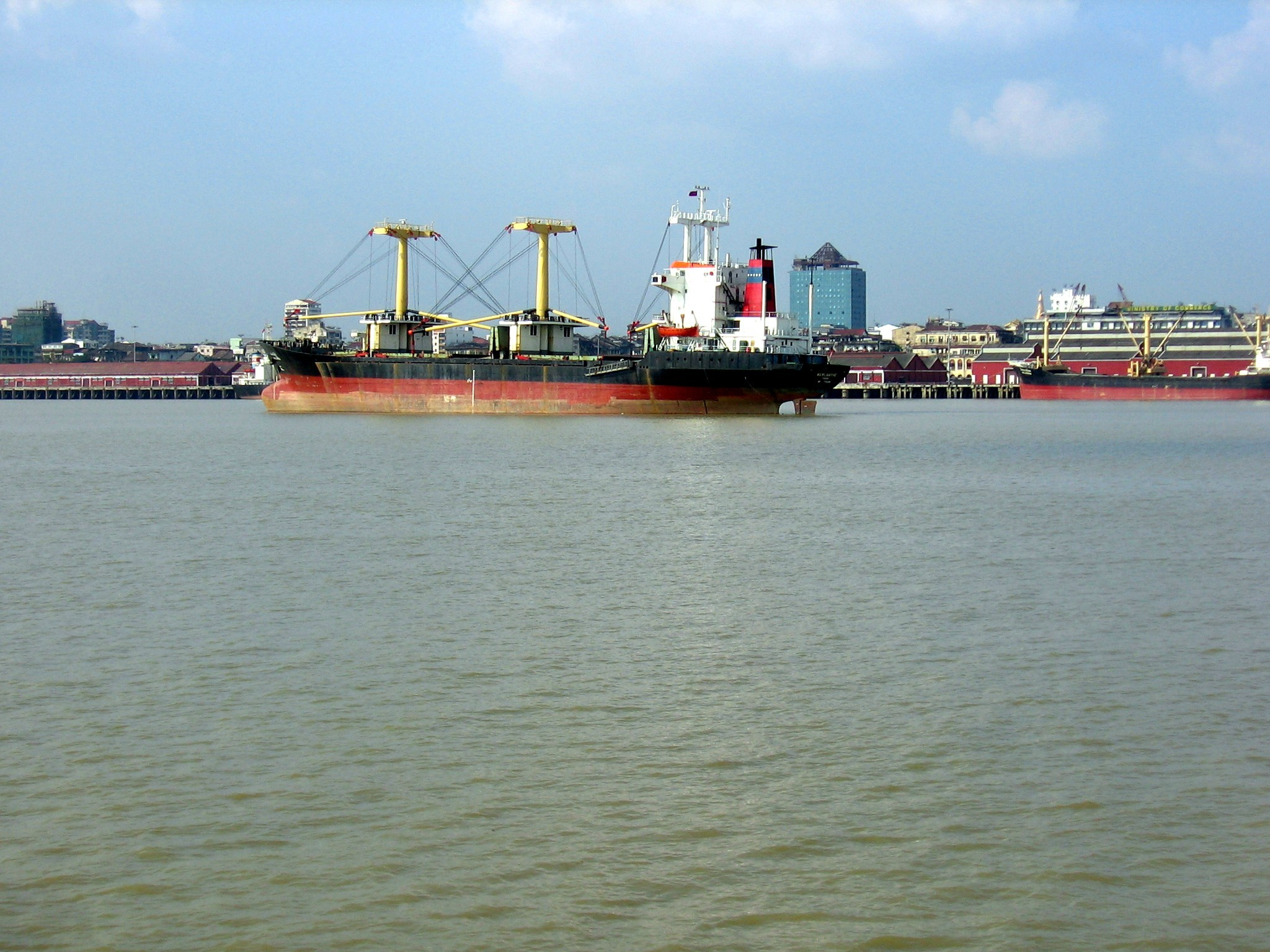 The Yangon River (also known as Rangoon River or Hlaing River) is an estuary that runs from Yangon, Myanmar to the Andaman Sea.